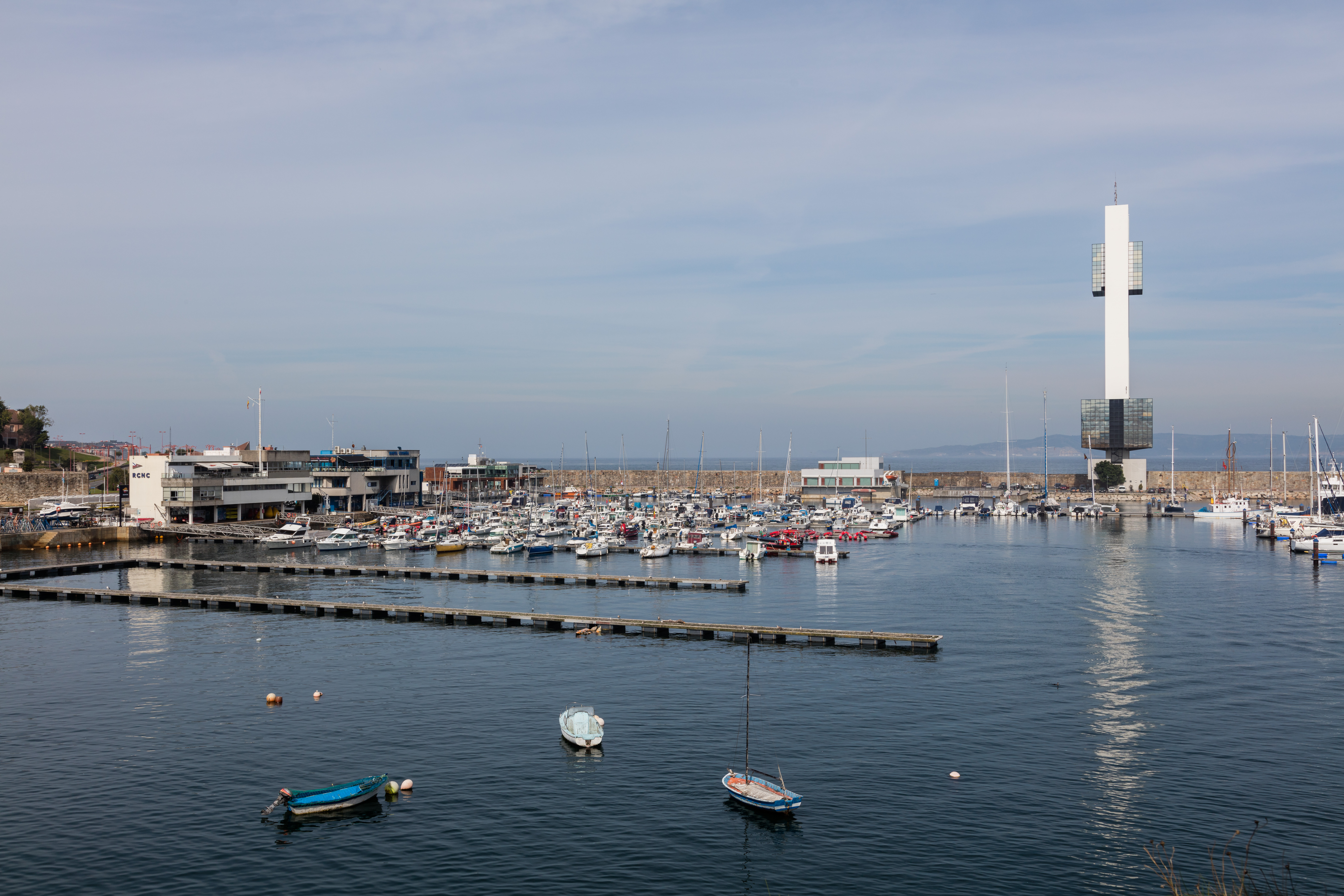 Port of La Coruña, Spain